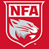 NFA SPortas